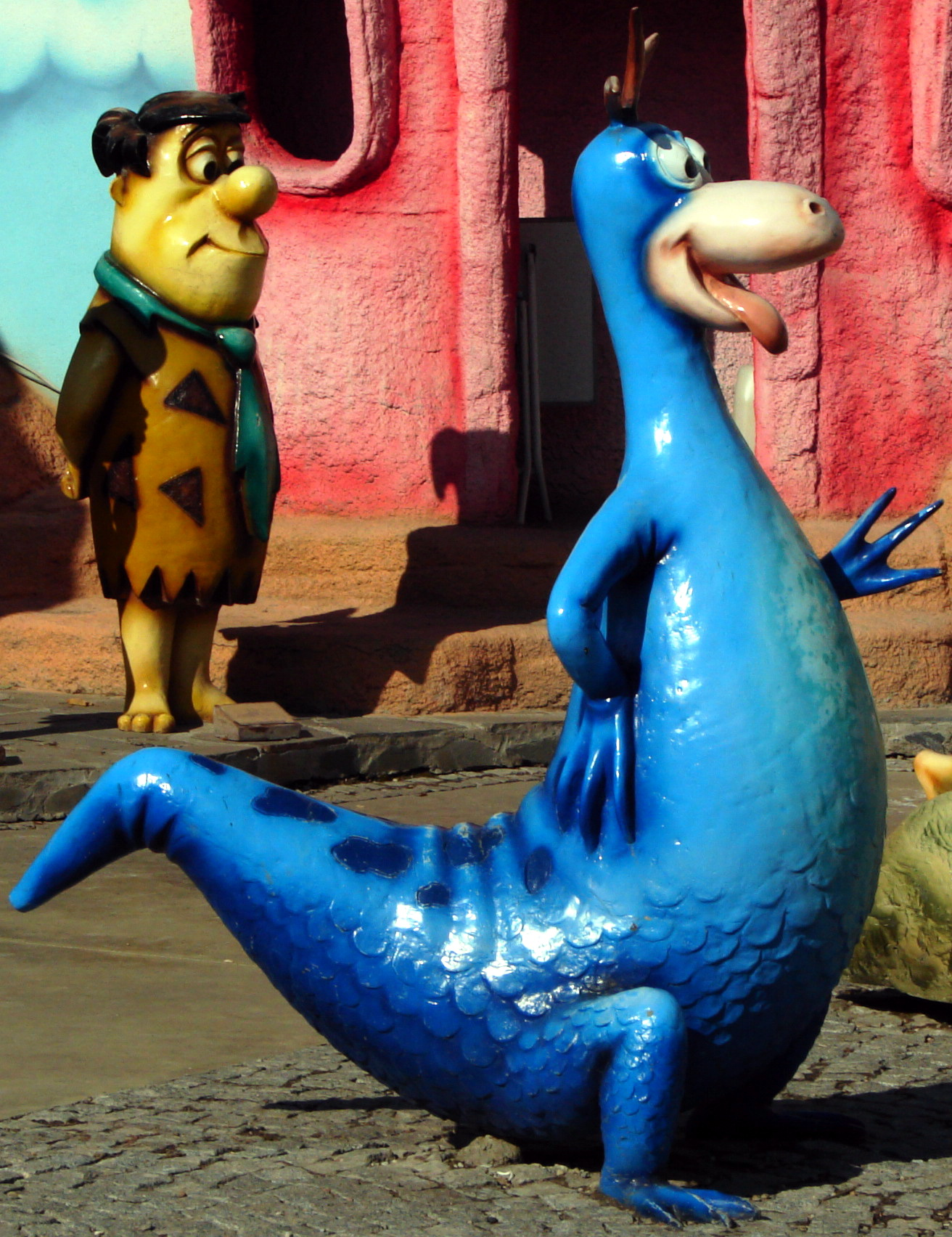 Dino and Fred Flintstone figurines at the Ankara Public Amusement Park losslessly cropped from original File:Harikalar_Diyari_Flintstones_06029_nevit.jpg, after the The Flintstones series